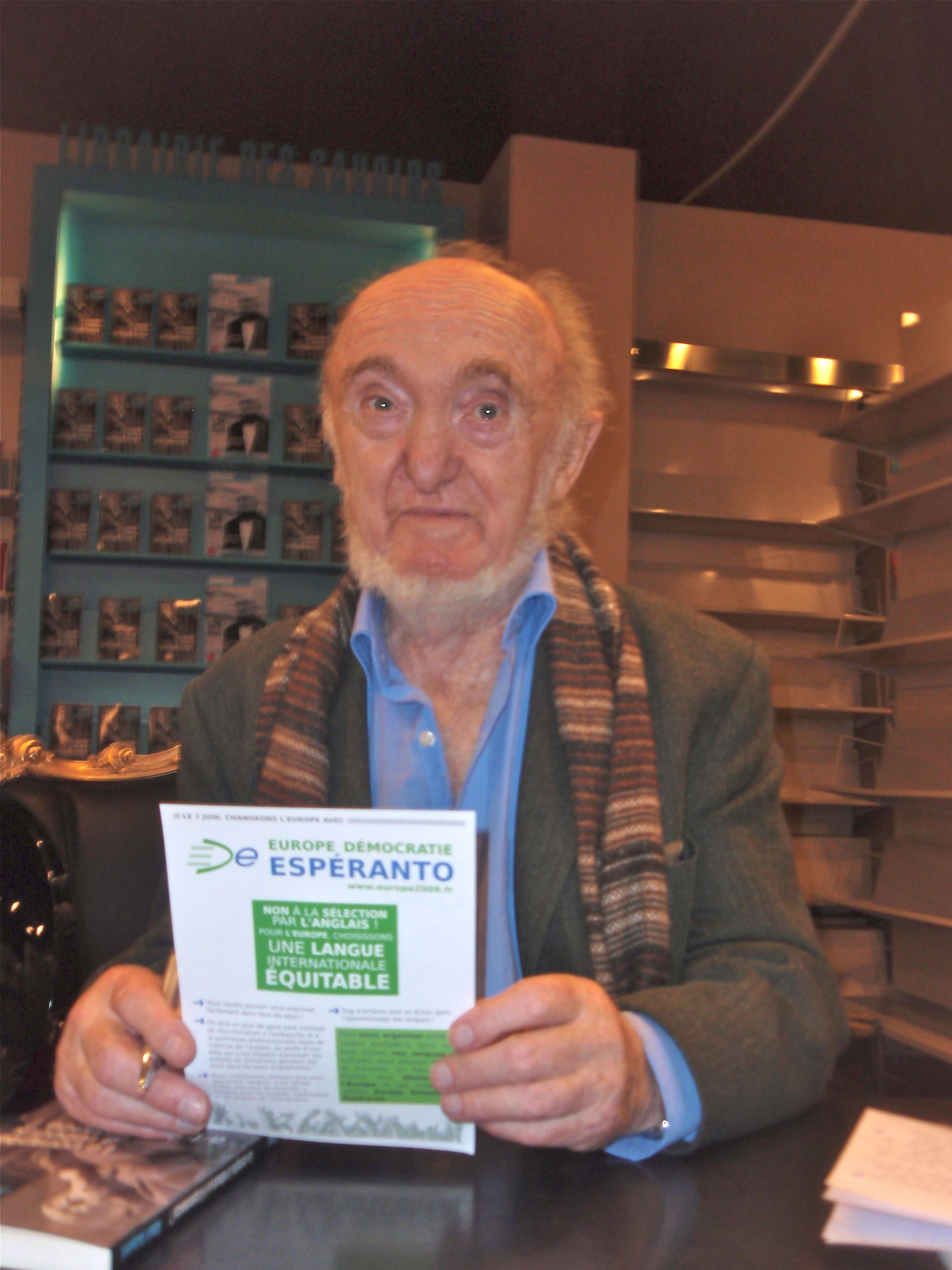 Albert Jacquard presents EDEEsperanto: Albert Jacquard reklamas por EDE